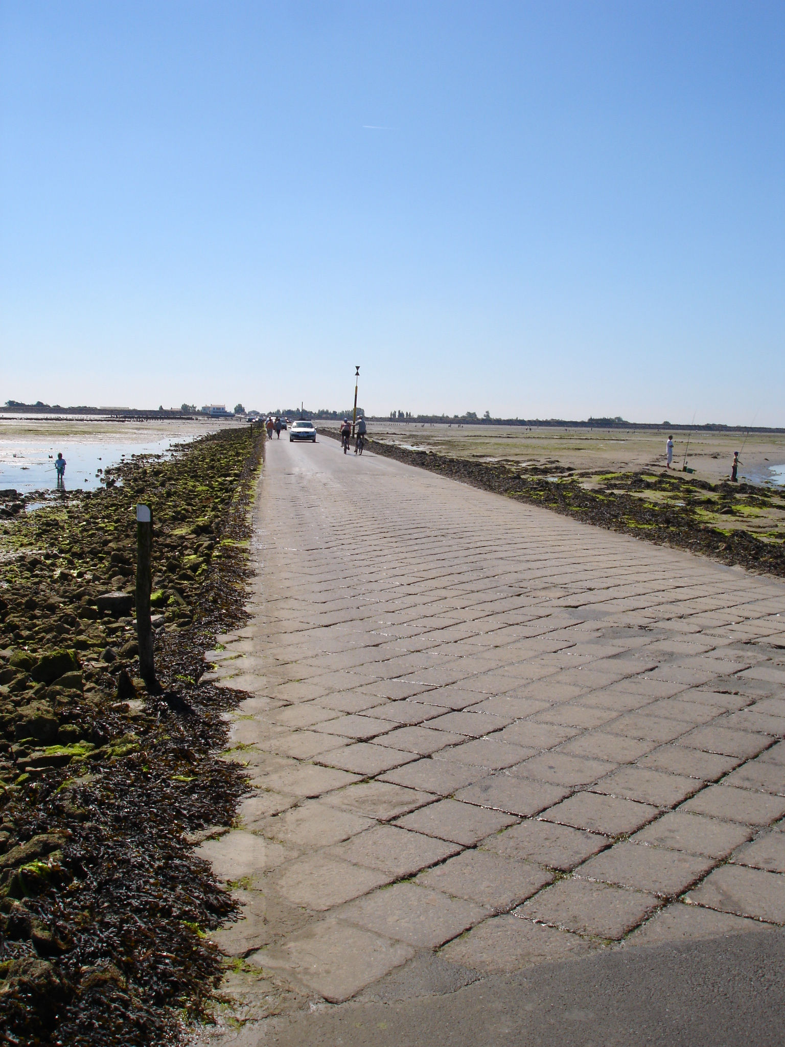 France, Vendée (85), Passage du Gois